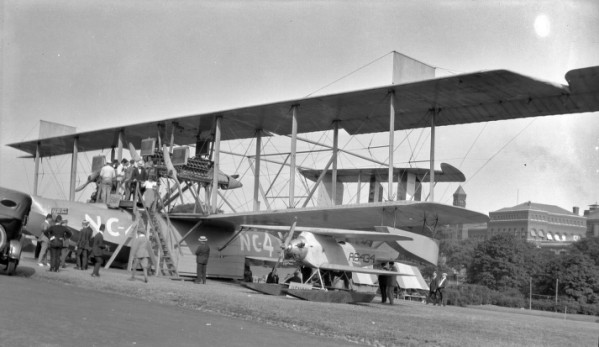 Aircraft with people and buildings